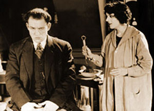 Lon Chaney and Claire Adams in the film The Penalty (1920).